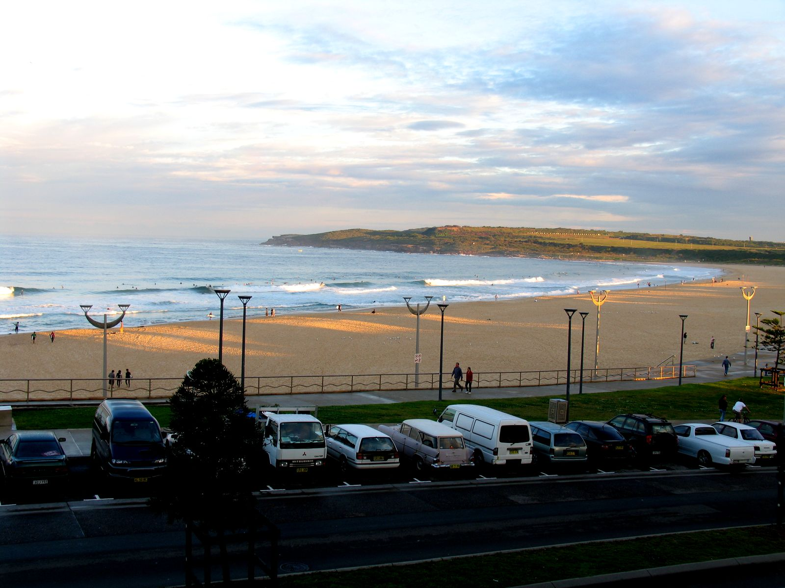 Maroubra Beach from different angle - shoot from my friends apartment - middle of 2007 - winter in AU